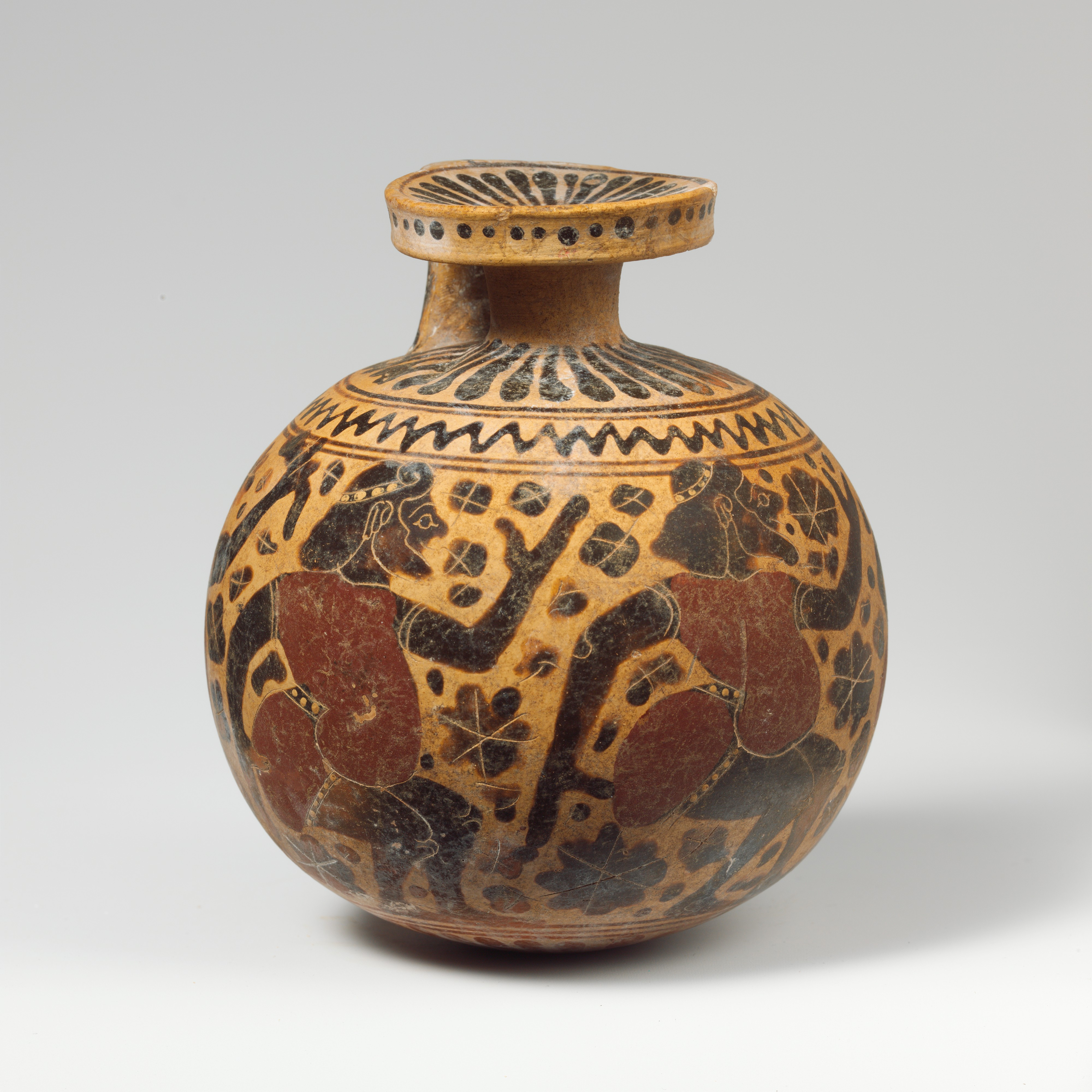 Greek, Corinthian; Aryballos; Vases; Komasts (padded dancers)